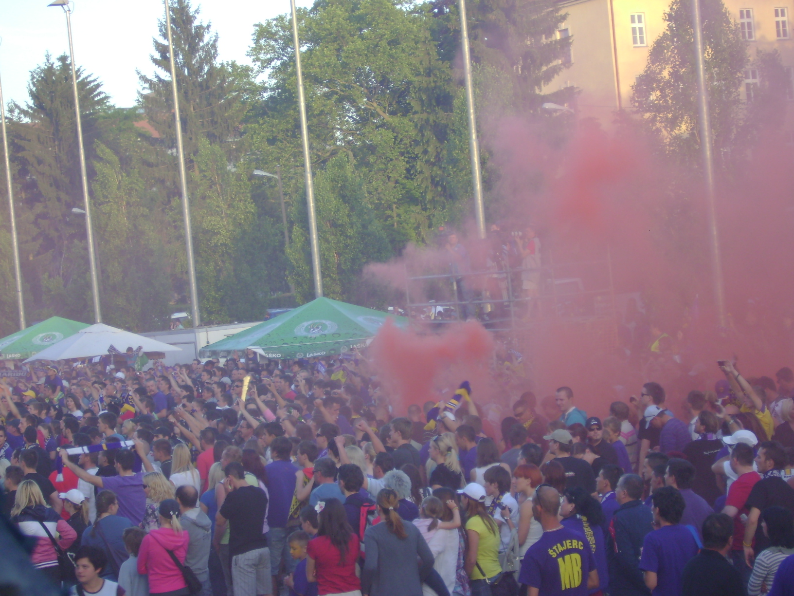 Maribor supporters on the south side of the Ljudski vrt stadium celebrating the club's ninth league title (29 May 2011)